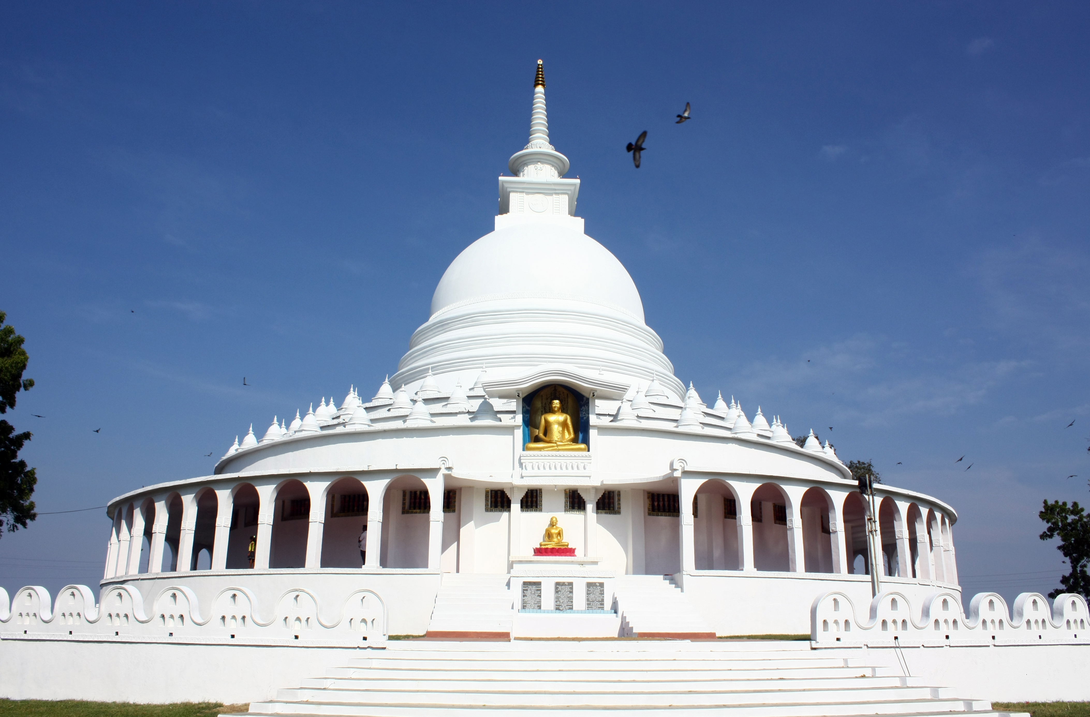 Peace Pagoda (a Buddhist stupa) in Ampra, Sri Lanka.